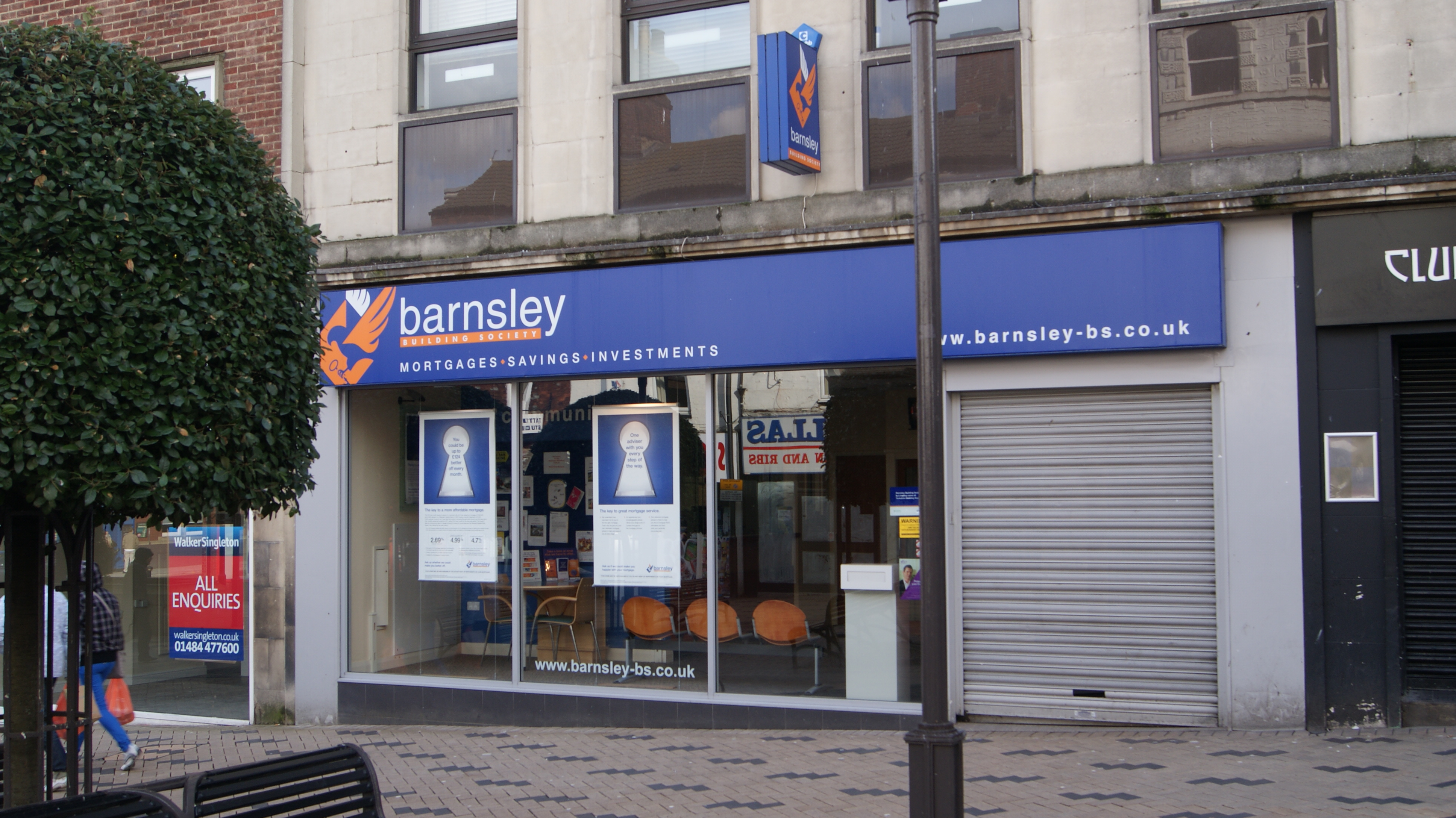 Barnsley Building Society, Kirkgate, Wakefield, West Yorkshire. Taken on the afternoon of Sunday the 10th of March 2013.